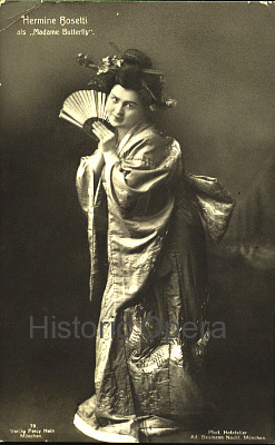 Soprano Hermine Bosetti (1875-1936) in role as Madam Butterfly.